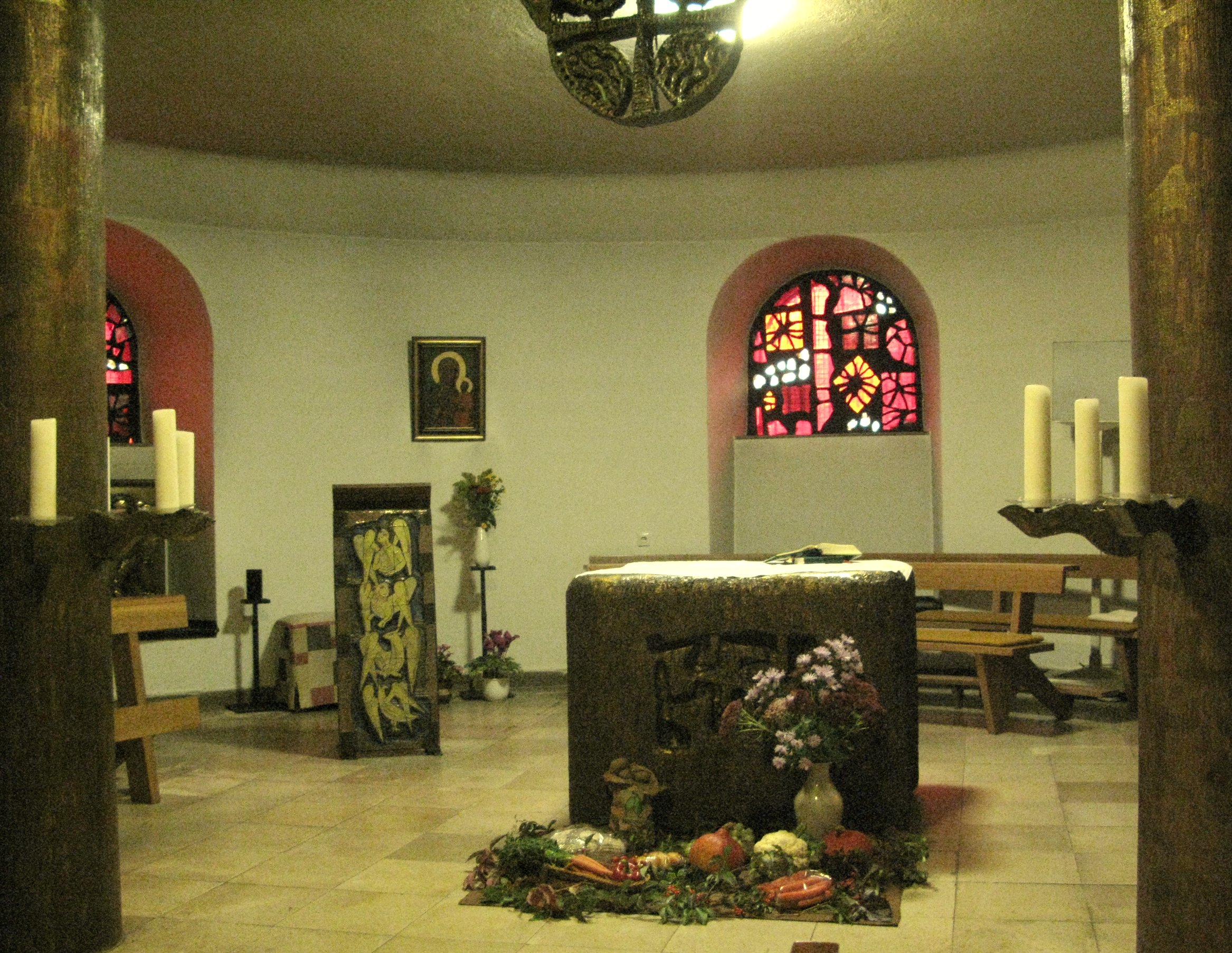 Dreifaltigkeitskirche Münster crypt